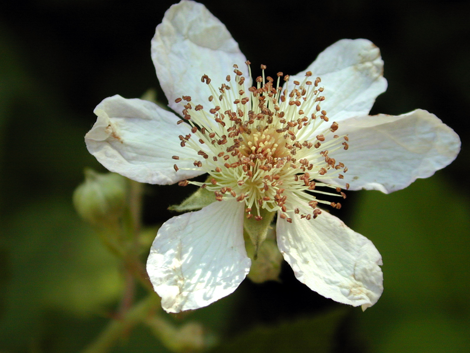 Rubus armeniacus (syn. R. discolor)